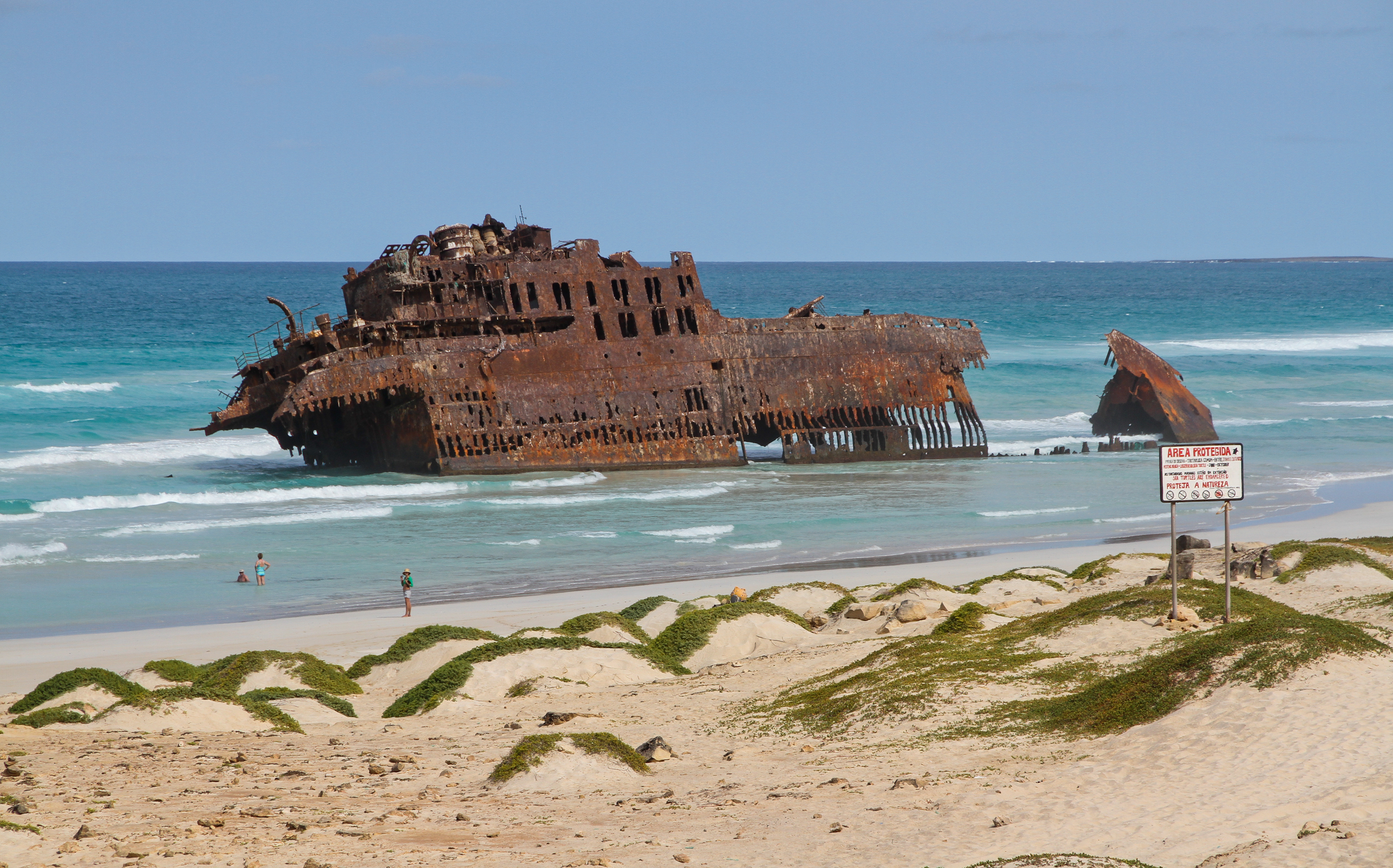 The ship wreck of Cabo de Santa Maria in Boa Vista, Cape Verde in 2010 December. The name of the ship is Cabo Santa Maria and it was wrecked here in 1968. The beach is called Praia de Atalanta after a Scandinavian ship that was having the same name and was lost in the area in 1920.